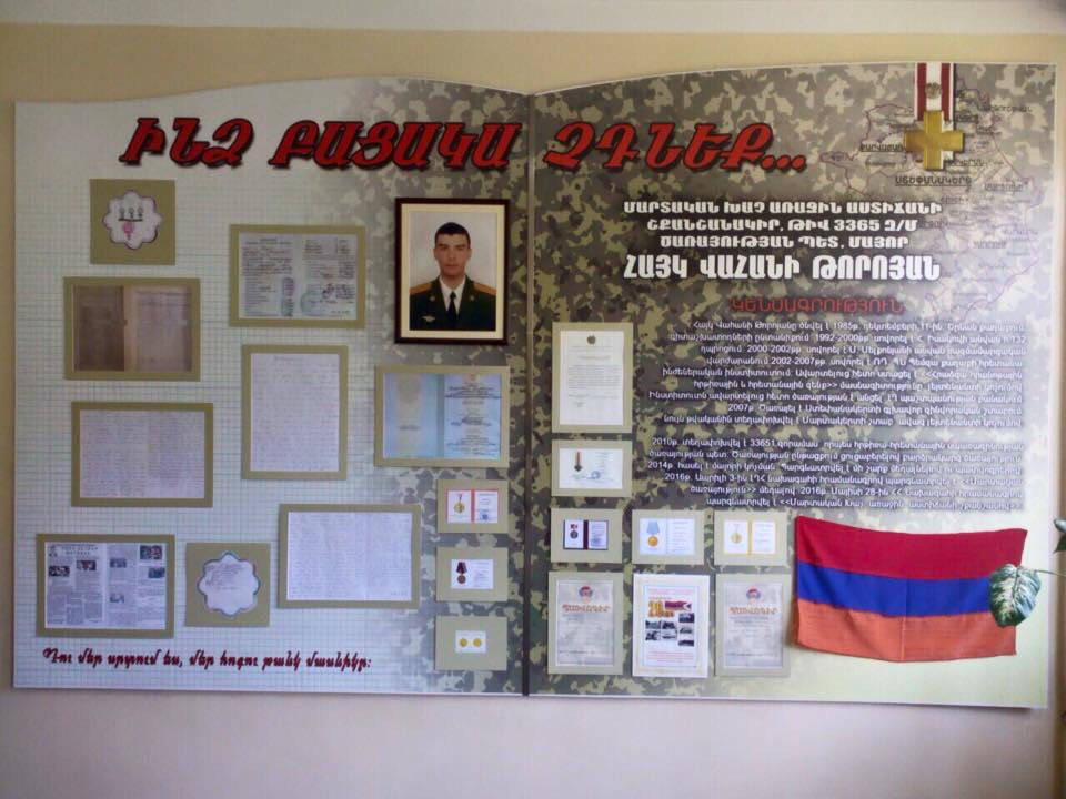 132 dproc